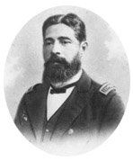 This is the brother of Brazilian admiral Luís Filipe de Saldanha da Gama (1846 - 1895)